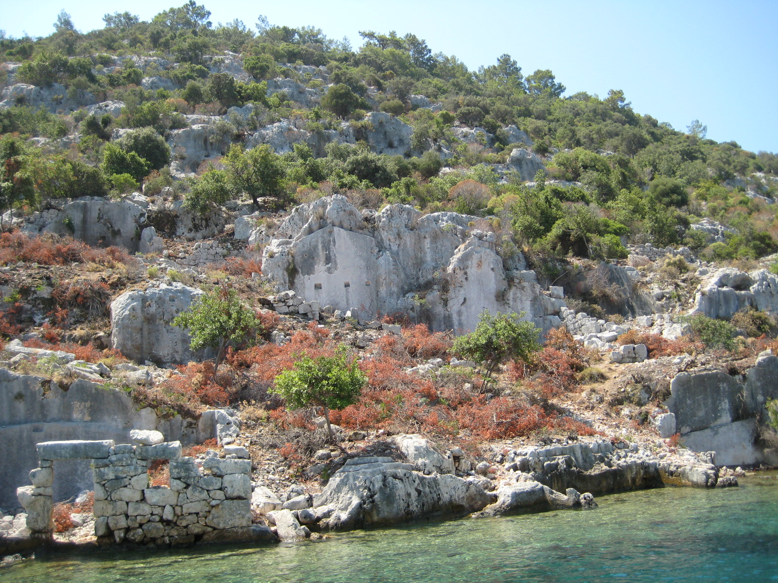 Kekova - Apollonia